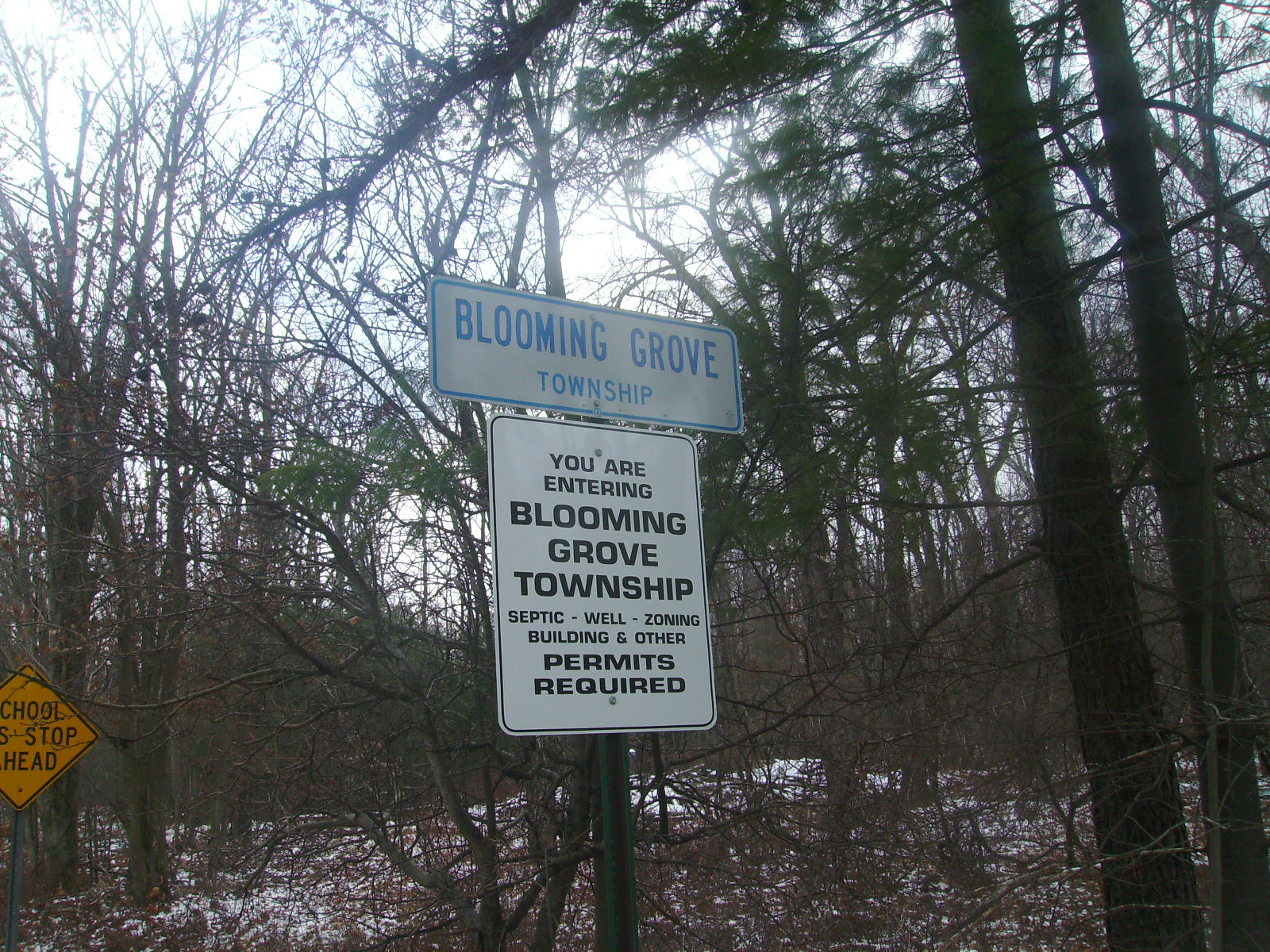 Signs on PA Route 739 for Blooming Grove Township.